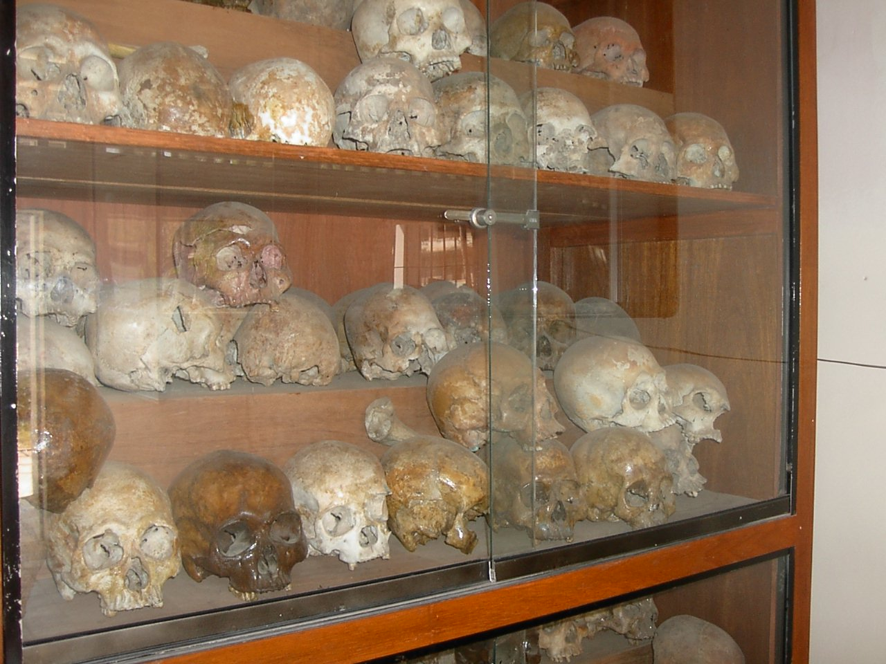 Cabinets filled with human skulls, disinterred from the grounds of the prison. Tuol Sleng Genocide Museum in Phnom Penh, Cambodia. Photographed and uploaded to English Wikipedia by User:Adam Carr